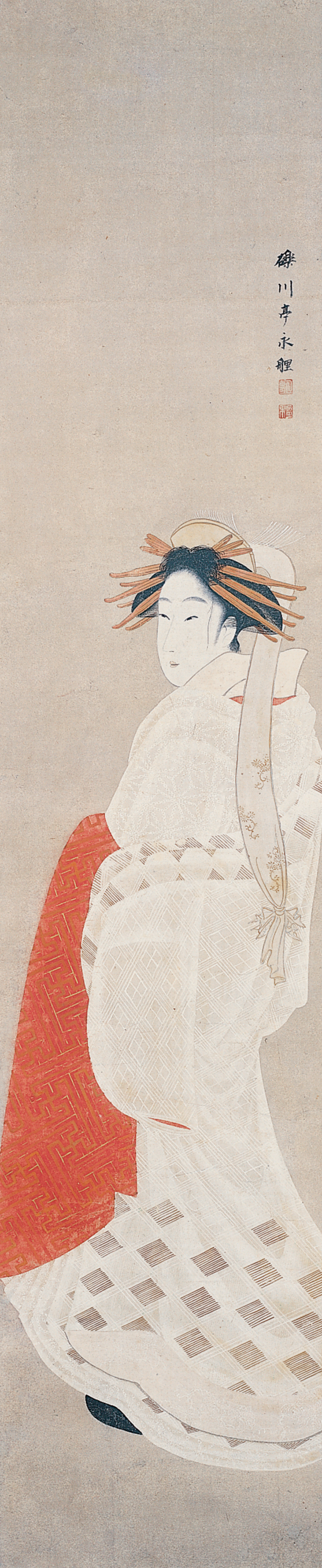 Beauty in a White Kimono by Rekisentei Eiri, c. 1800, Japan, Edo period, Hanging scroll; ink and mineral pigments on paper, Kimbell Art Museum